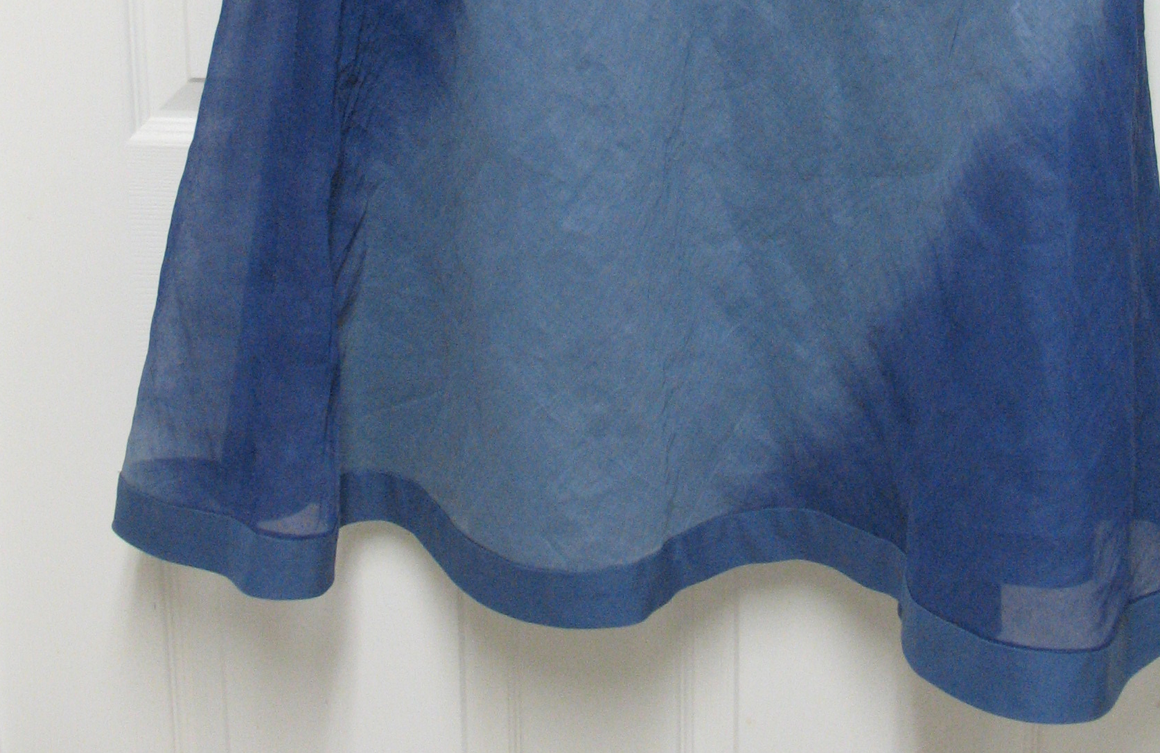 Blue organza over blue and white underlay